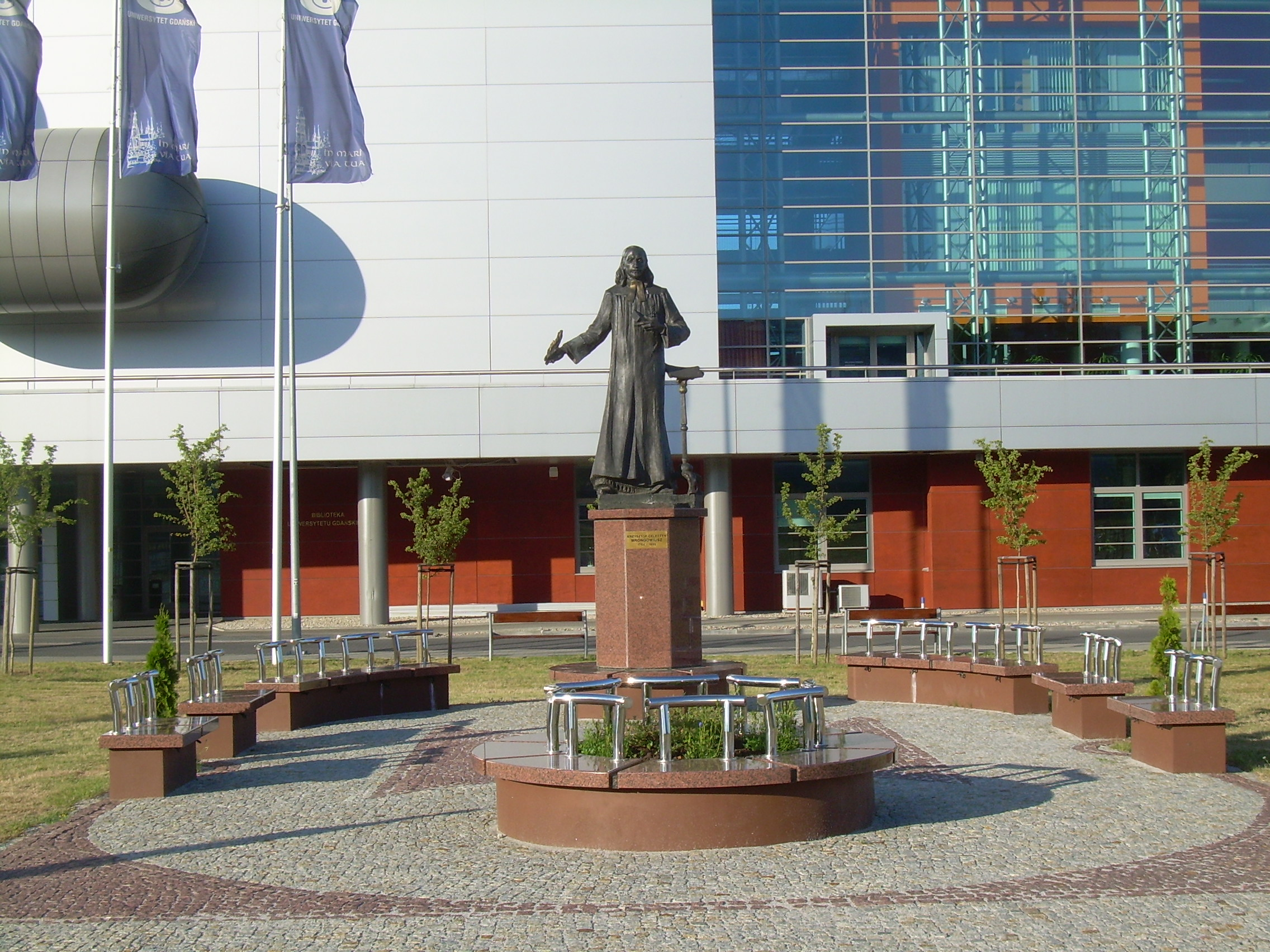 Gdańsk University, monument to Krzysztof Celestyn Mrongovius.